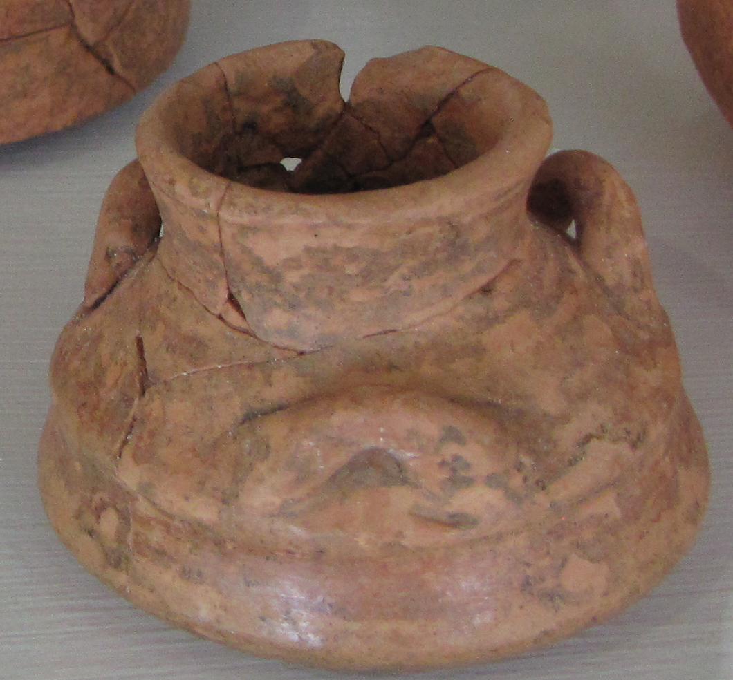 Tria Platania, sample of a clay vessel (Tribina)